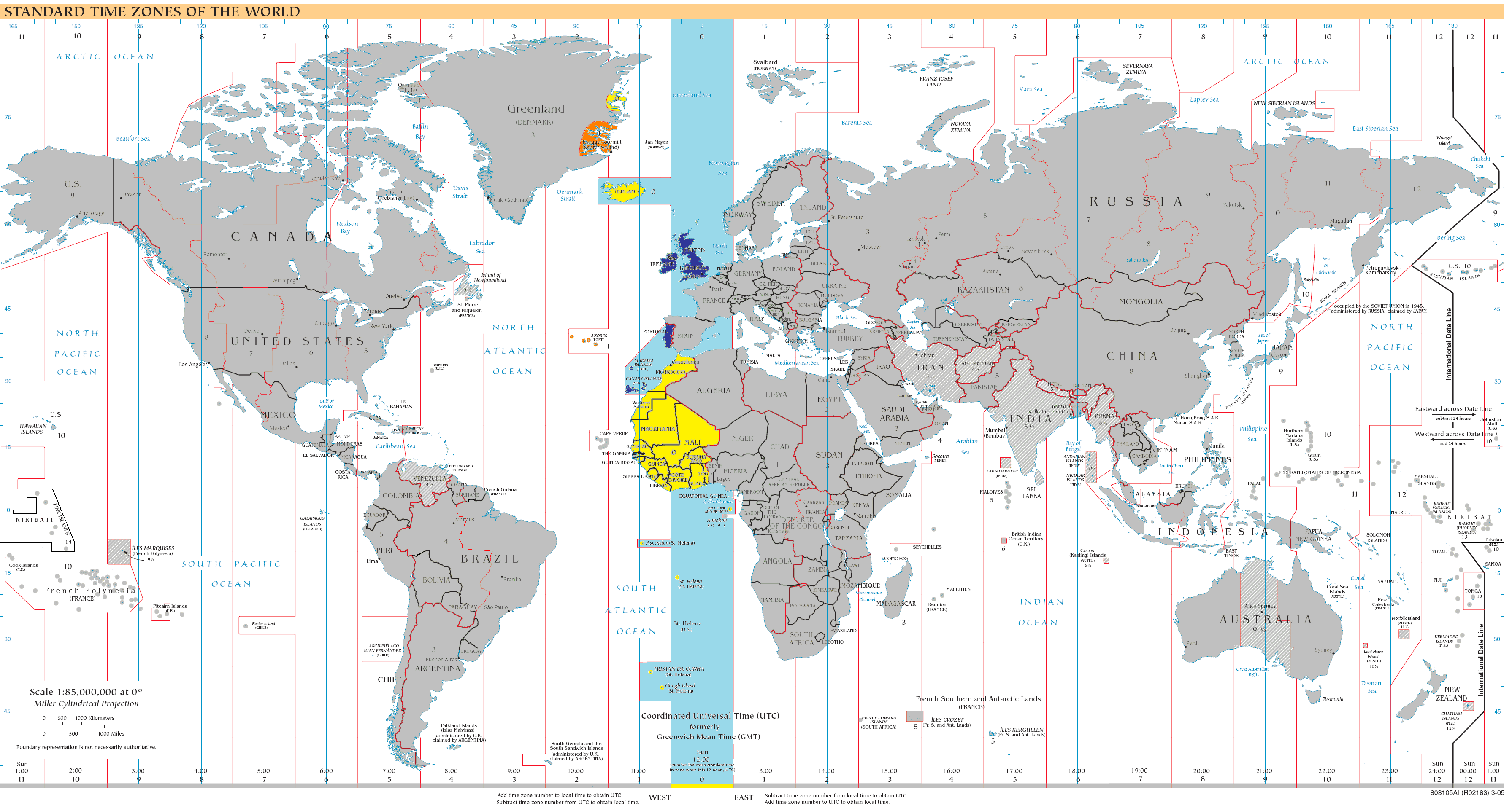 World map of time zones as of 2008, on the Miller Cylindrical Projection and with highlighted UTC+0 zone. Dark Blue - UTC+0 during Northern Winter / Southern Summer Orange - UTC+0 during Northern Summer / Southern Winter Yellow - UTC+0 all year round Light Blue - UTC+0 sea areas